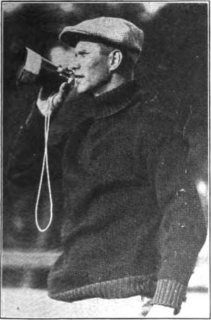 Cal coach Andy Smith